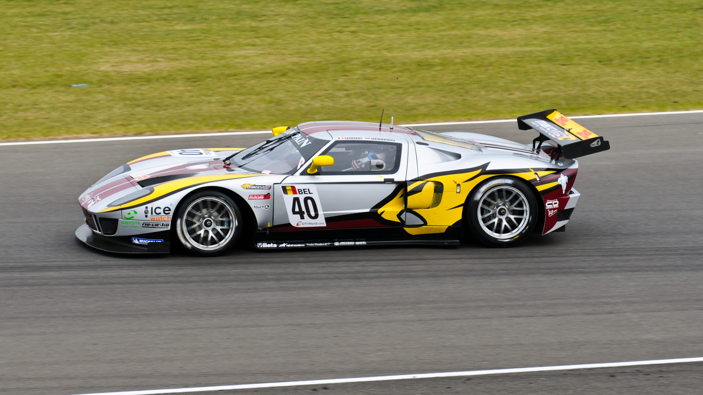 2011 FIA GT1 Silverstone round